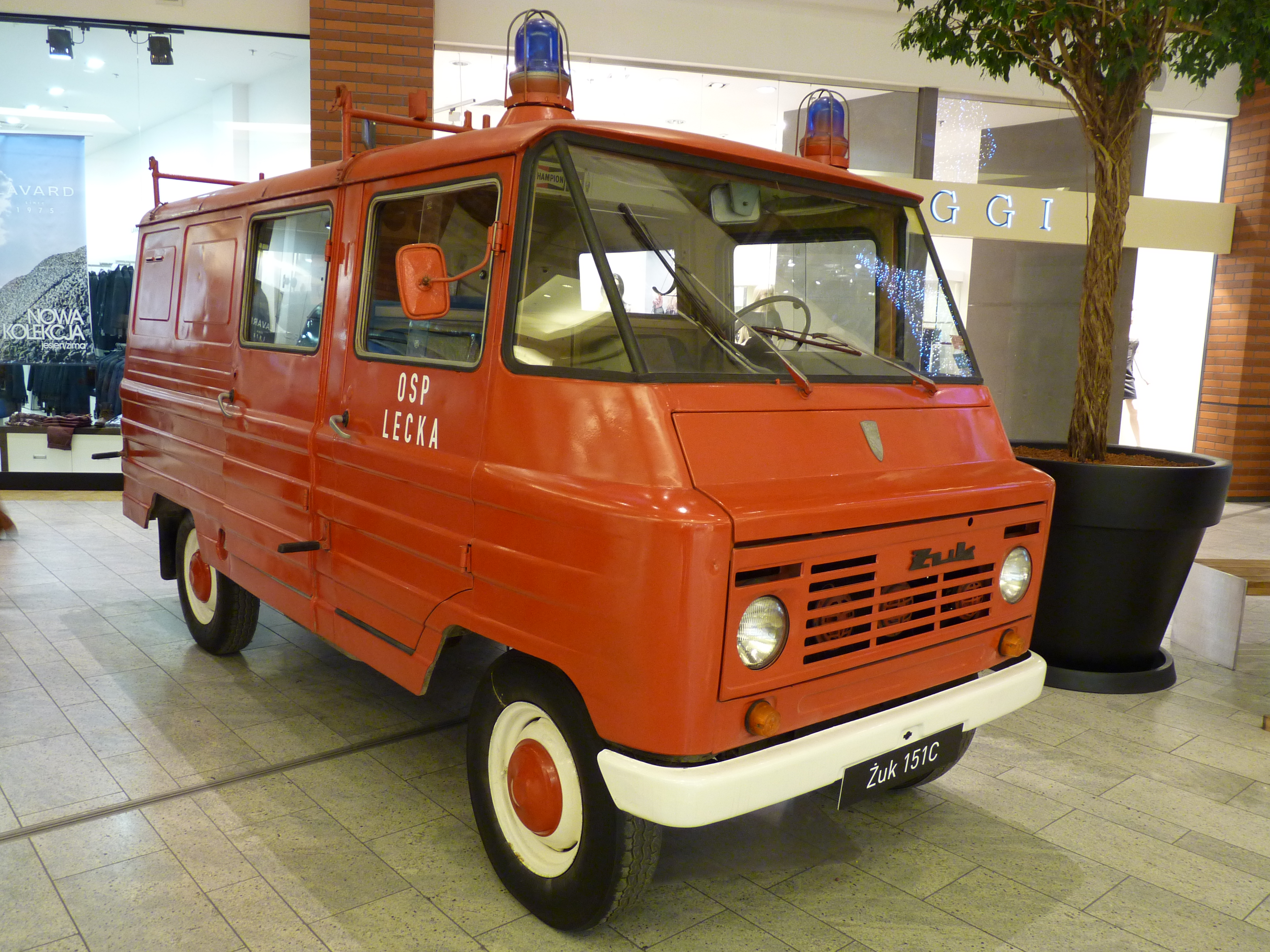 FSC Żuk A-151 C during „XXX lat motoryzacji PRL” exhibition at Bonarka City Center in Kraków.